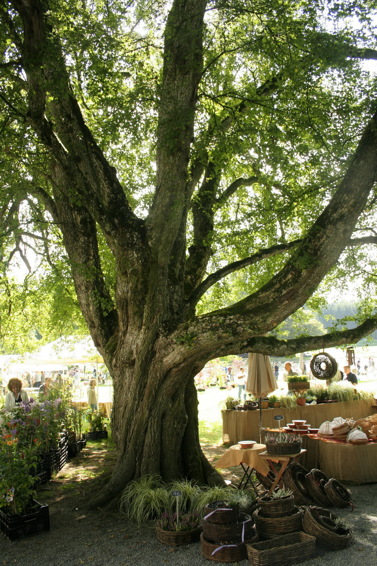 Field Maple.